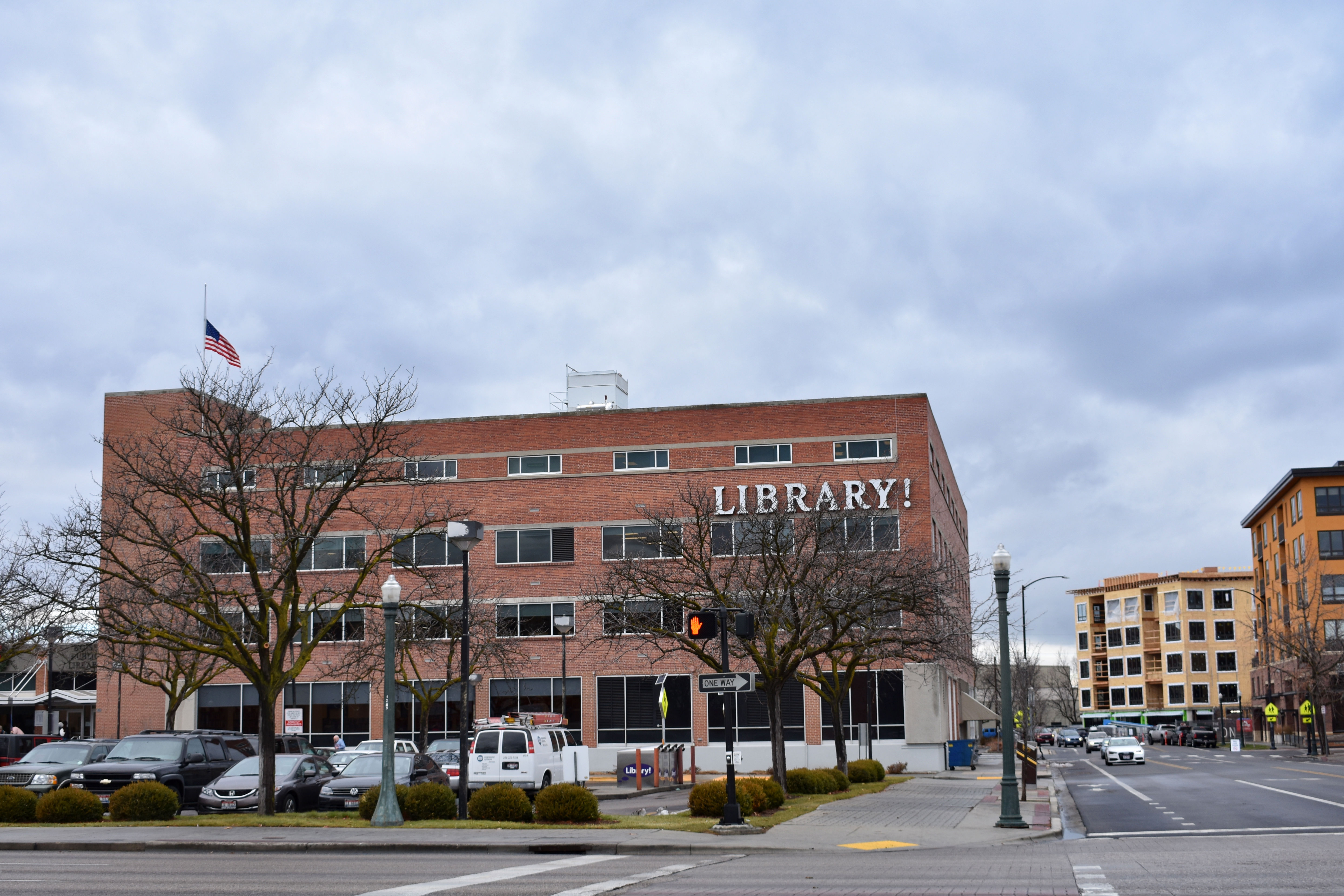 The main branch of Boise Public Library, across from Julia Davis Park.